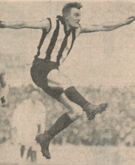 Photograph of Bill Aldag from 1930-1931